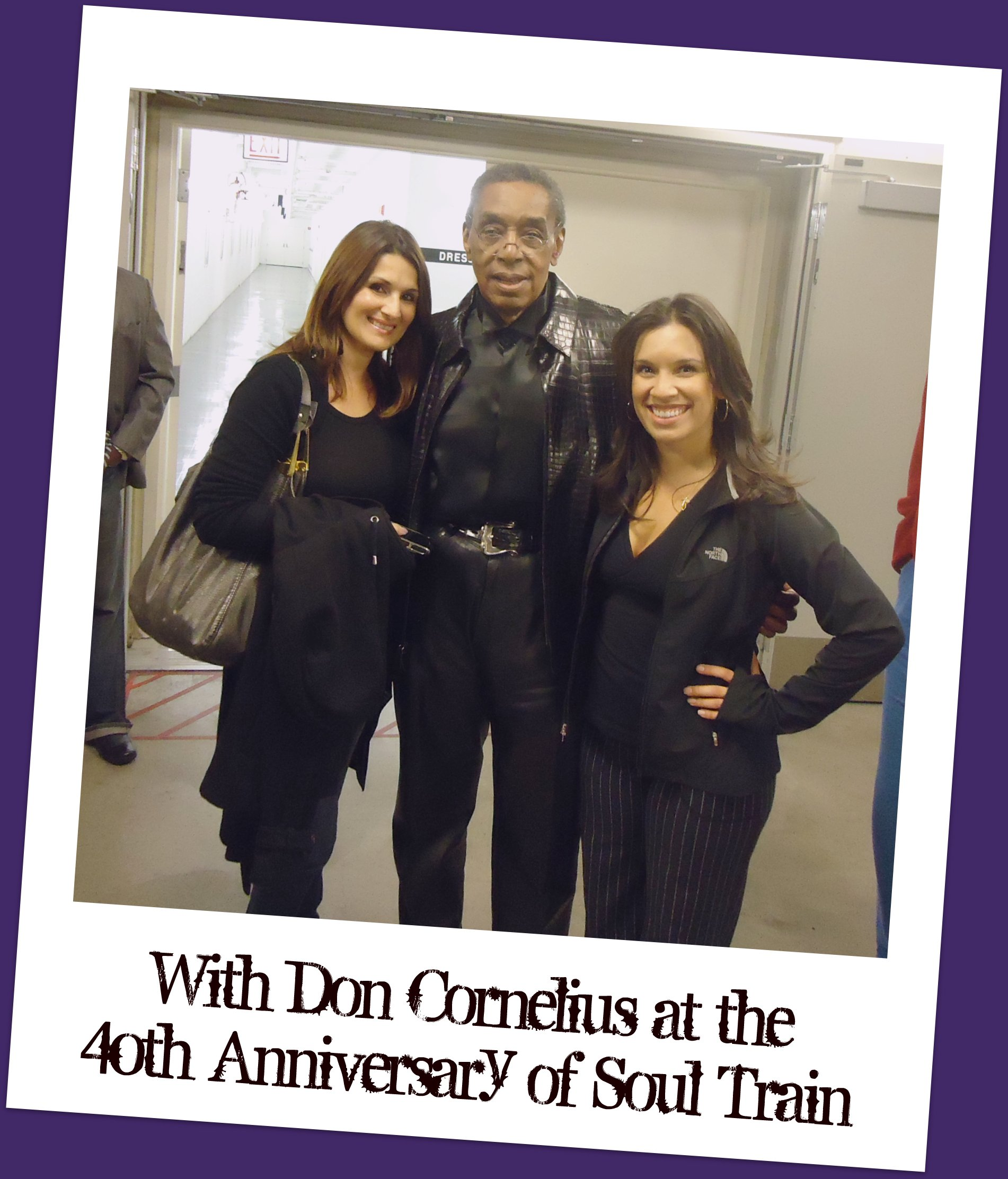 Two women standing with Don Cornelius at the 40th anniversary of Soul Train.